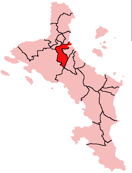 Map of Mahe Island, Seychelles showing Bel Air District; created with the GIMP. Made by User:Acntx.